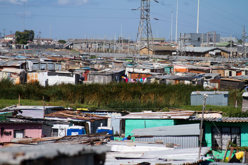 A view of the township of Khayelitsha just outside of Cape Town, South Africa. Such slums are common in South Africa, usually within a short drive from city center. Usually segregated, with origins in apartheid era.